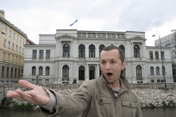 J. B. in front of the Opera House